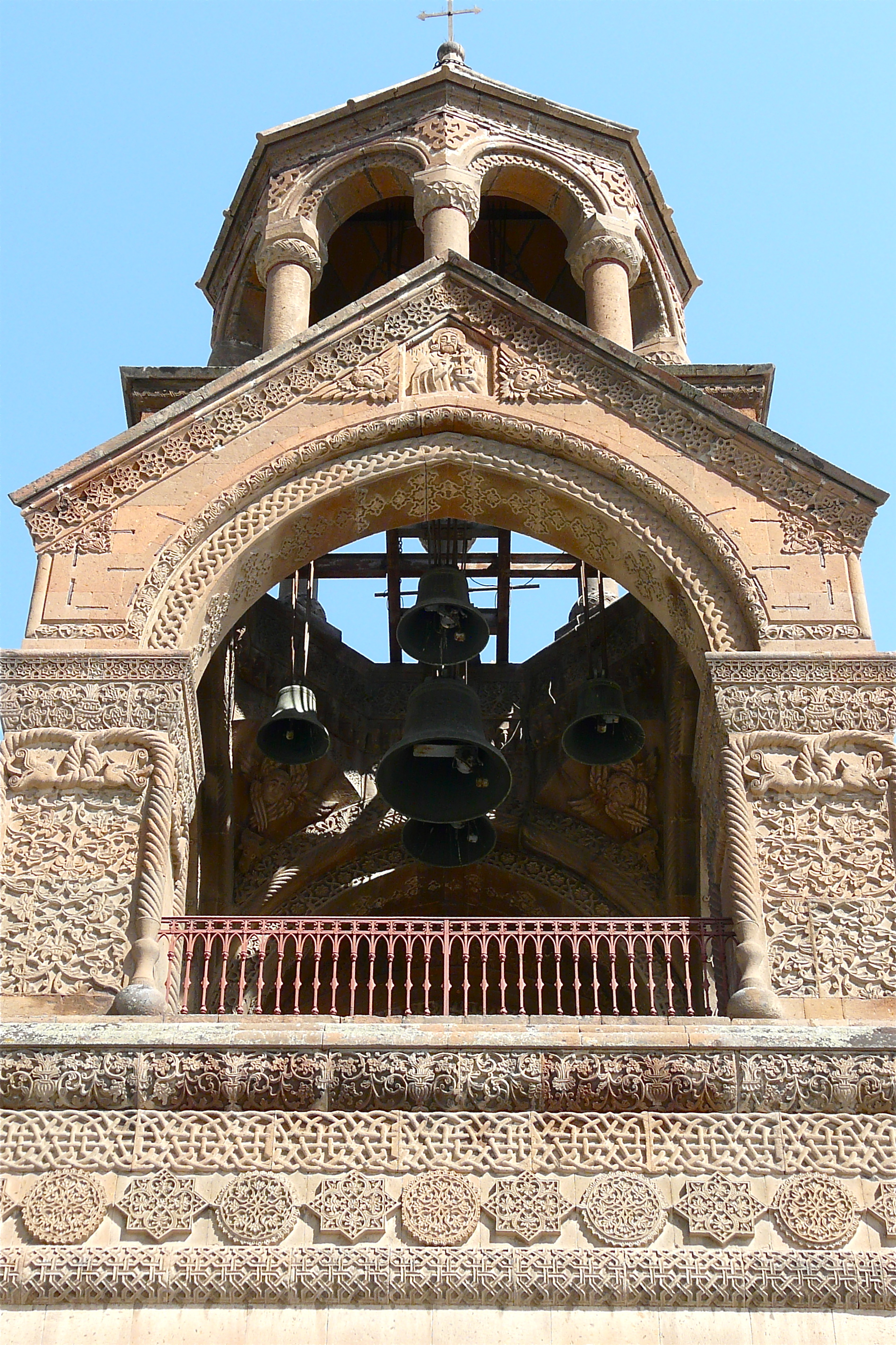 Etchmiadzin Cathedral (bell-tower), Etchmiadzin, Armenia.